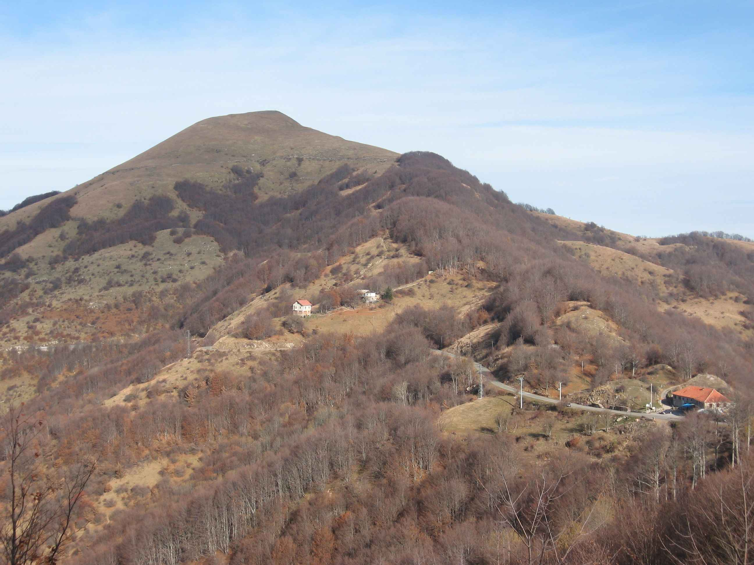 Mount Carmo and Capanne di Carrega (Italy, Piemonte/Liguria/Emilia)